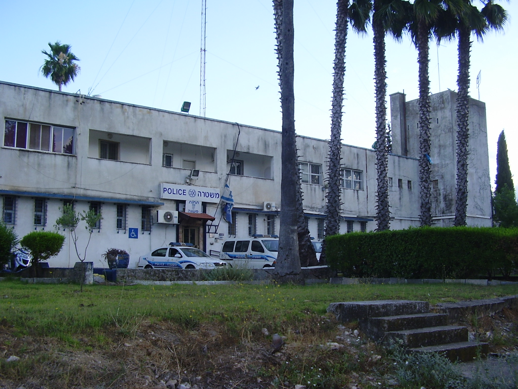 meona(tarshiha) police station